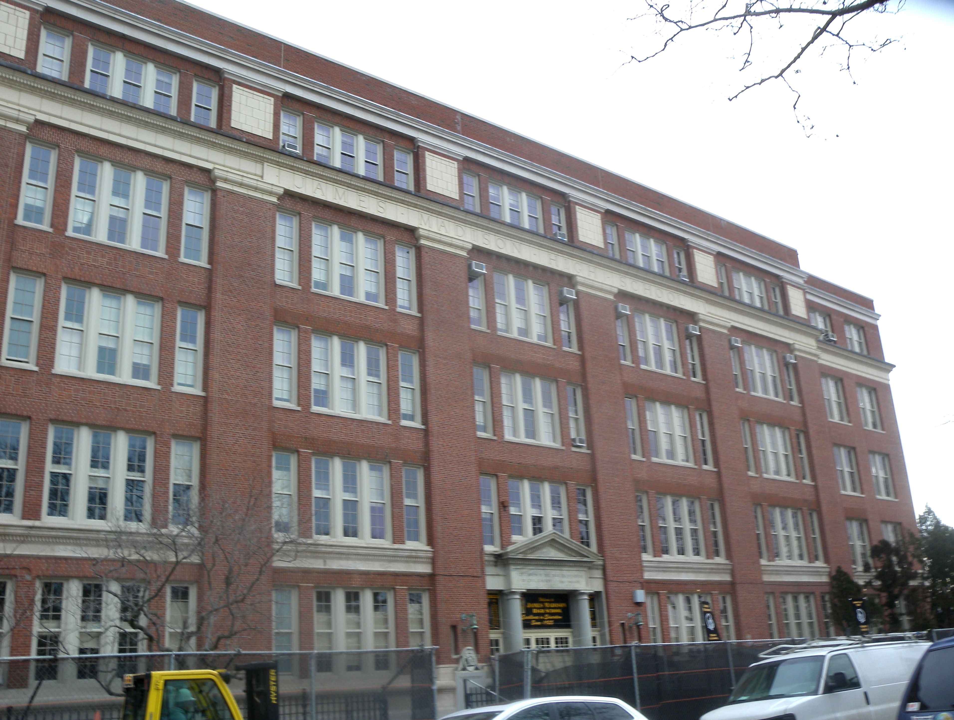 Looking southeast across Bedford Ave at Madison HS on a cloudy late morning (while pedalling past). ZIP 11229.